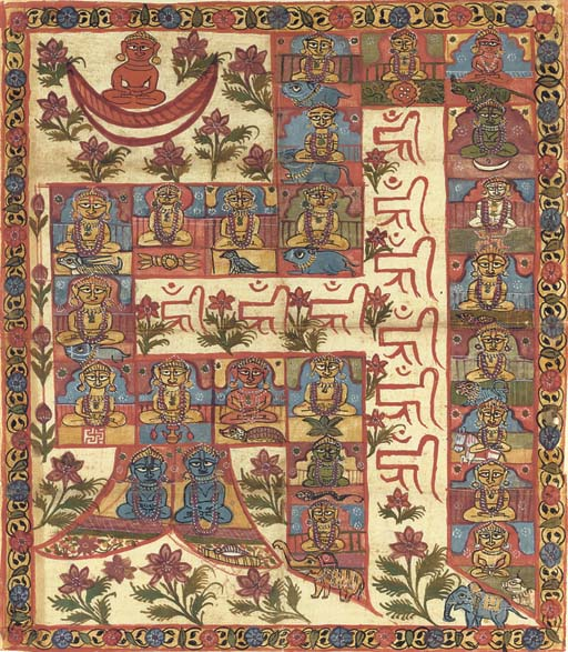 The 24 Tirthankaras form the tantric meditative syllable HRIM, Gujarat, 1800's (downloaded Aug. 2004) "A Jain Painting on Cloth. India, Gujarat, 19th Century. The 24 Jain tirthankaras along with their cognizances arranged in rectangular niches forming the sacred syllable hrim which is repeated at center, one Jina depicted at top left corner seated on a crescent moon; surrounded by floral borders; framed. 15½ x 13 1/8 in. (39.4 x 33.3 cm.)." This is a photograph of a 2D art published c. 1800 CE per University of Columbia source. Wikimedia Commons PD-Art guidelines apply.